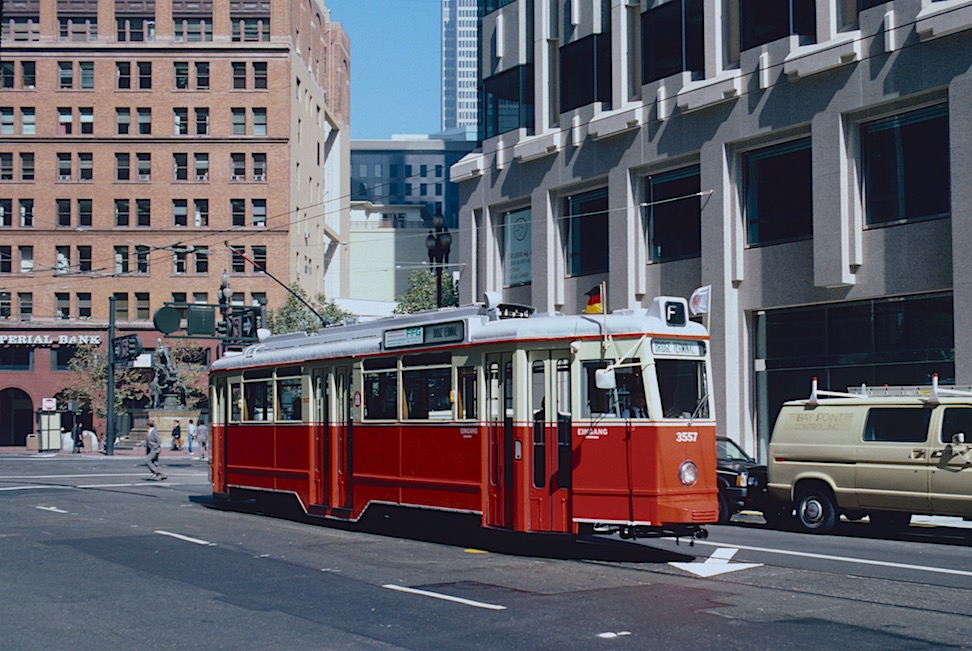 During the 1987 San Francisco Historic Trolley Festival, Hamburg (Germany) car 3557 is headed southeastwards on First Street immediately south of Market Street, having just turned off of the latter, on its way to the Transbay Terminal.